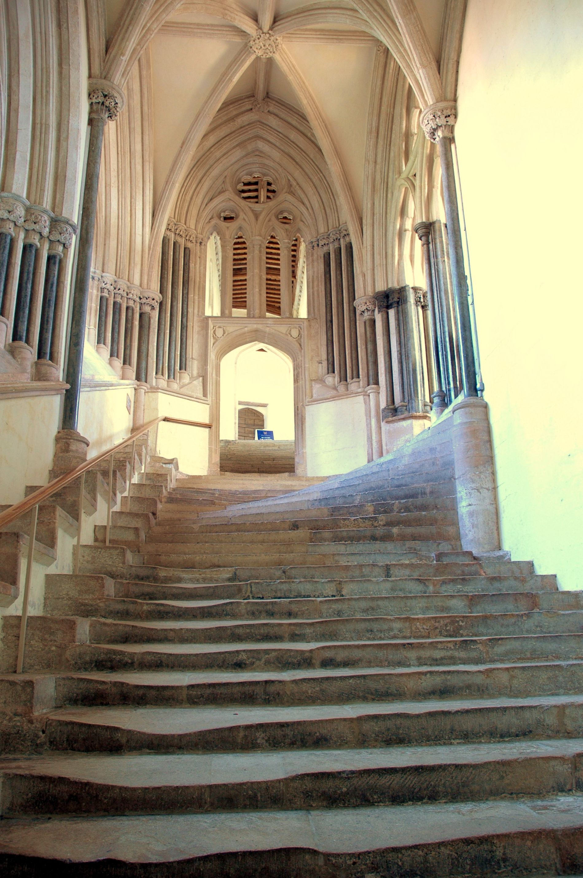 Chapter House steps at Wells Cathedral